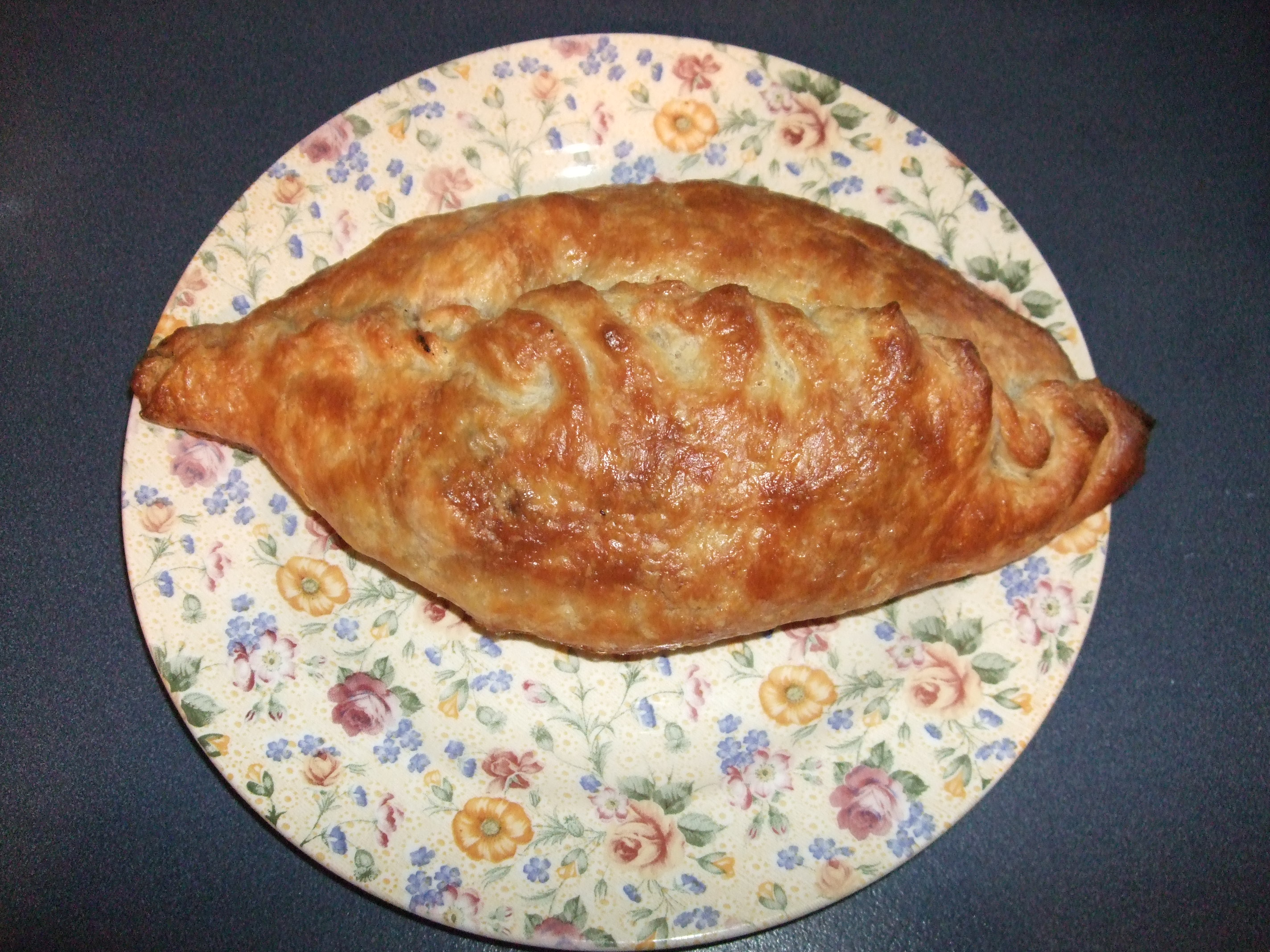 A cooked top crimped pasty